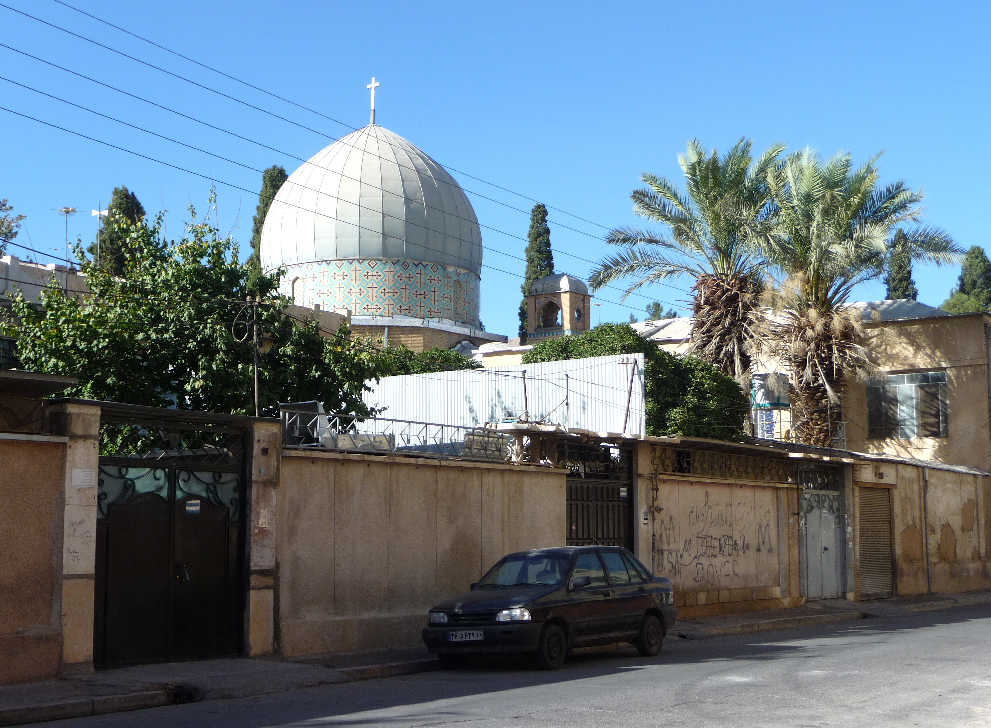 Church of Simon the Zealot in Shiraz (Fars, Iran).